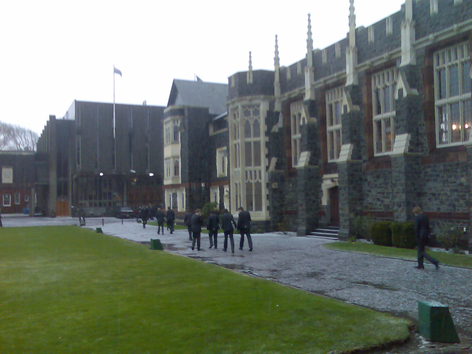 The Christ's College Dining Hall and quad during a hail storm.